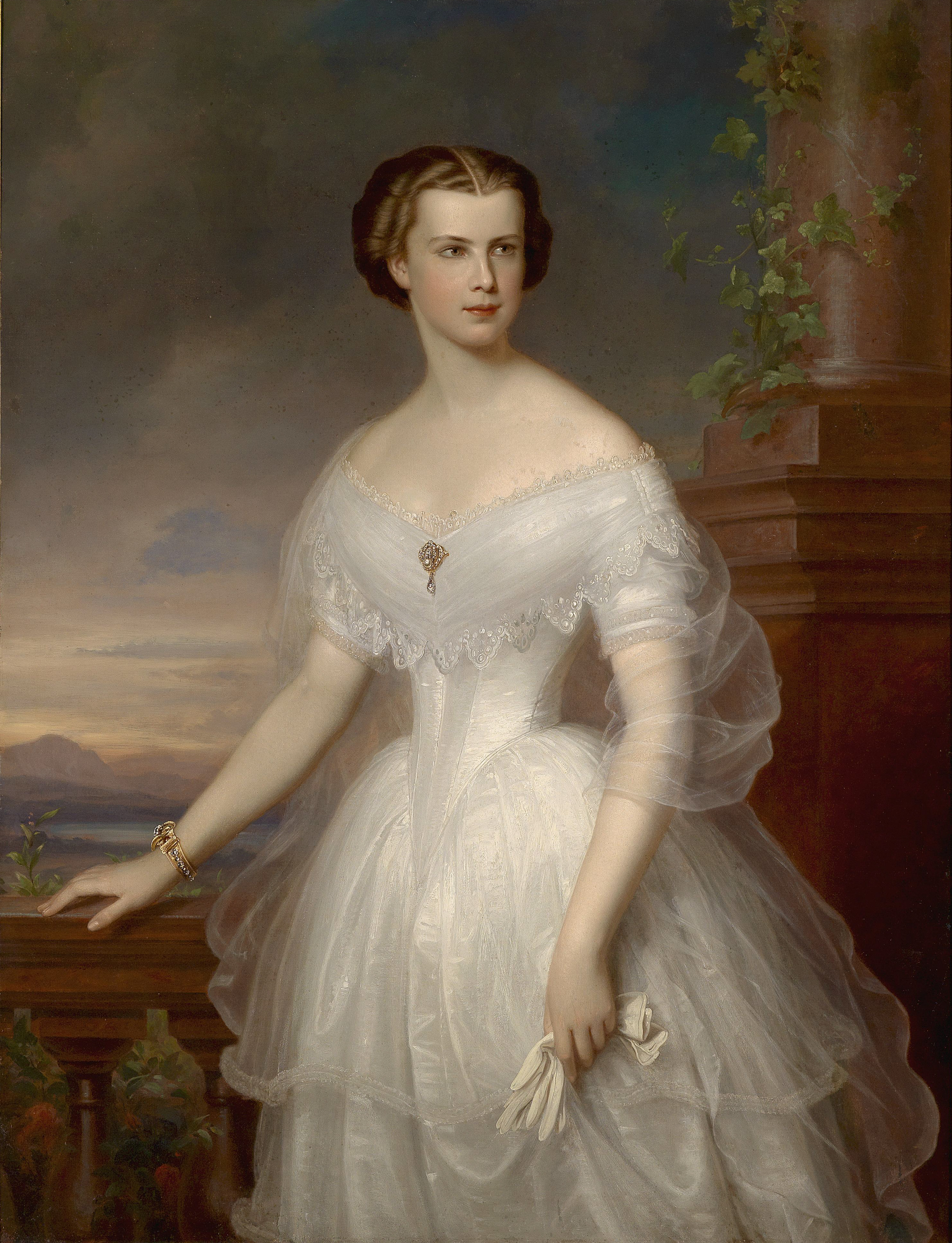 Portrait of Elisabeth of Bavaria, Empress of Austria (1837-1898)